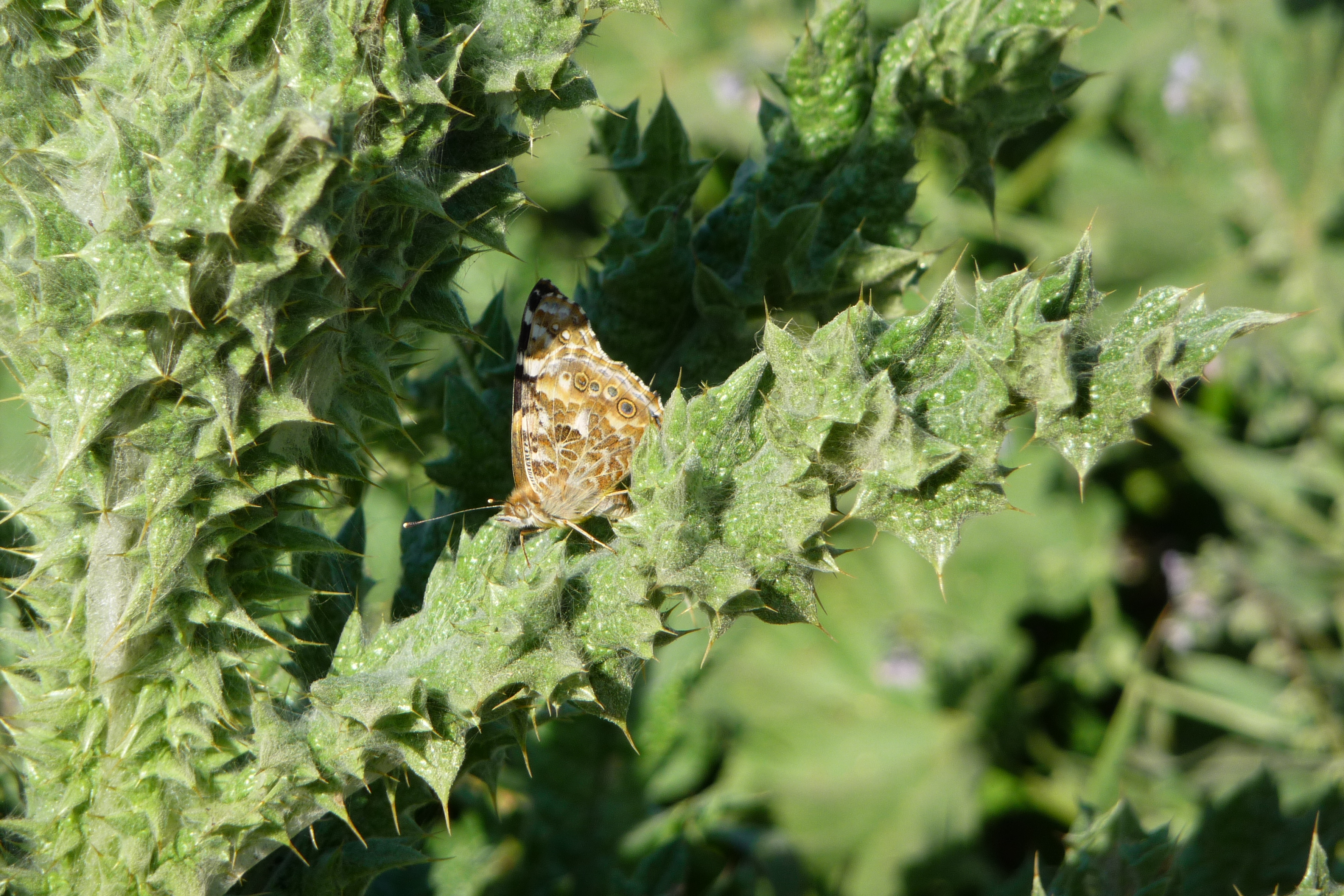 IBet Oren